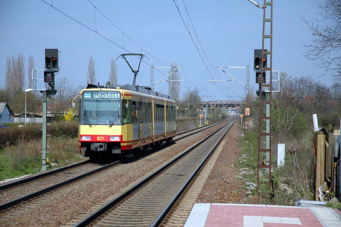 AVG's Car no. 821 of type GT8-100C, location: Bruchsal, center of education, train number: 81034